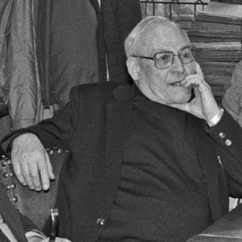 Octaaf Mus (born 1925), Belgian historian